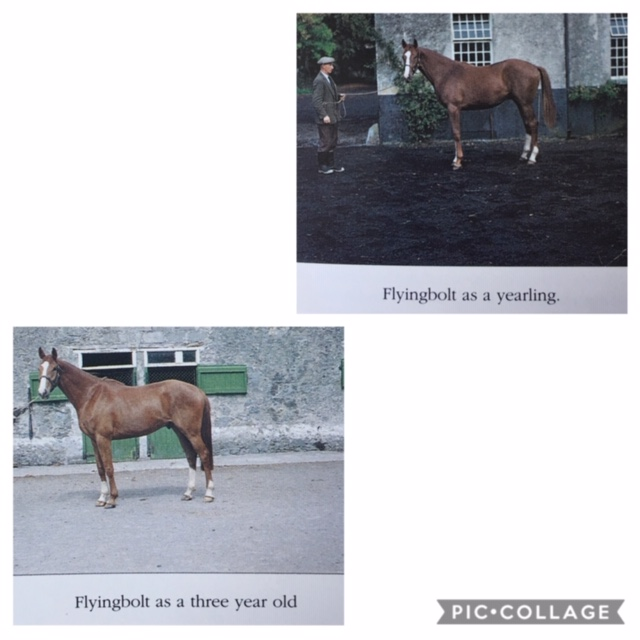 Flyingbolt as a yearling and as a three-year-old